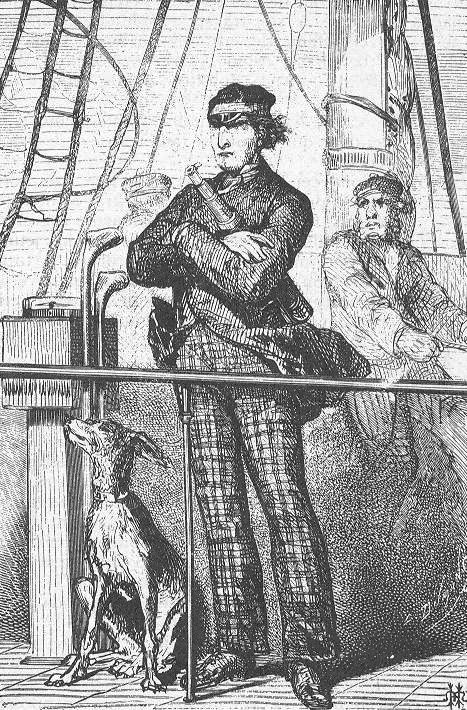 An illustration from Jules Verne's novel "Journeys and Adventures of Captain Hatteras", part I: "The English at the Noth Pole" drawn by Édouard Riou and/or Henri de Montaut.